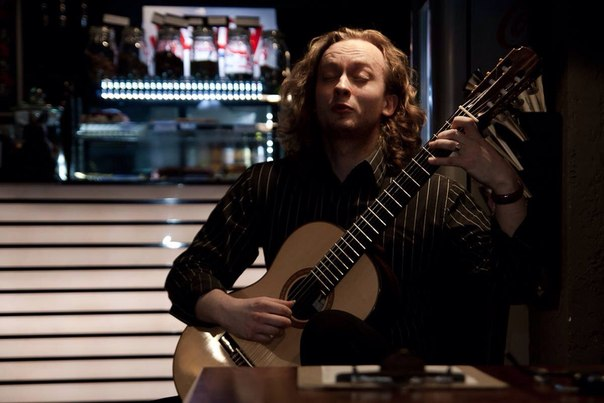 Igar Dzedusenka